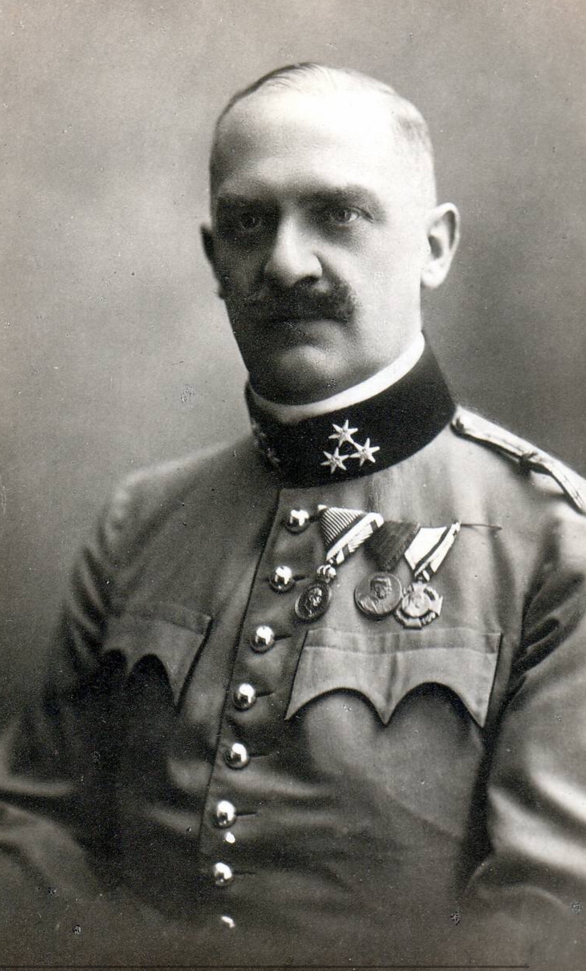 Rittmeister Schimatzek